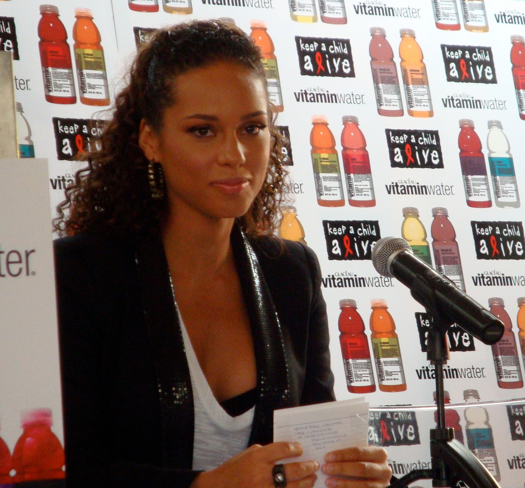 American singer-songwriter Alicia Keys in South Africa for the FIFA World Cup Kick Off Concert.